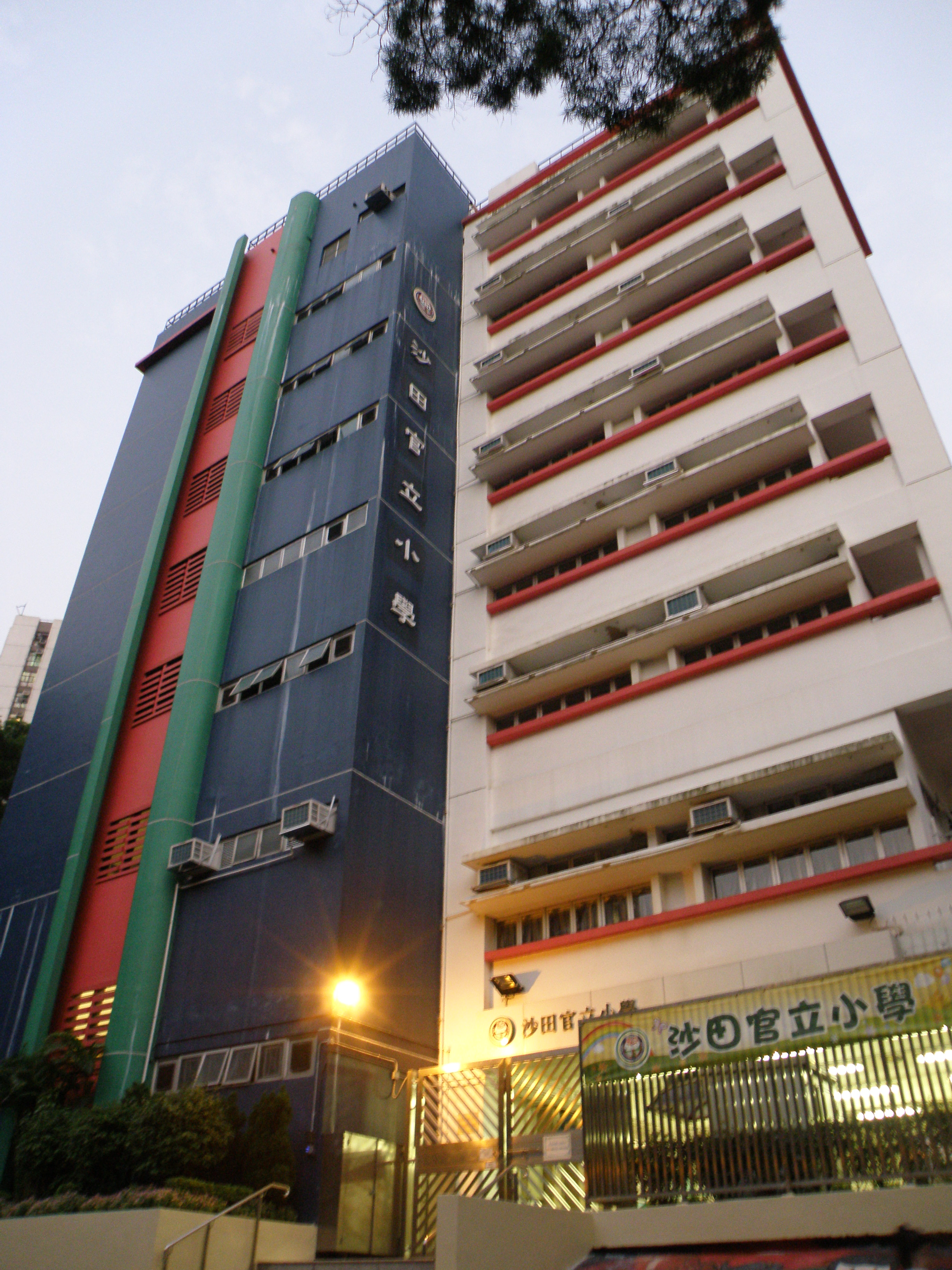 Sha Tin Government Primary School in Sha Tin Tau, Hong Kong.